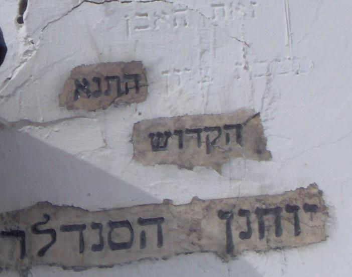 Tomb of Yochanan the Sandlar in Israel